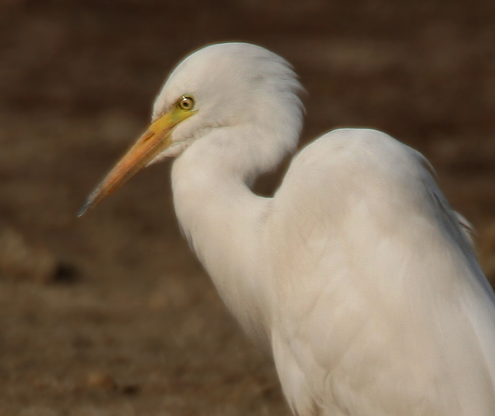 Intermediate or Median or Yellow-billed, Egret Ardea intermedia near Hodal, Faridabad, Haryana, India.